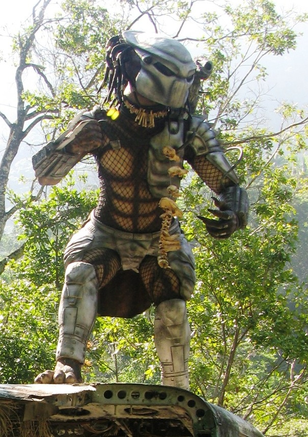 The Predator from Predator filming site (Puerto Vallarta, Mexico).